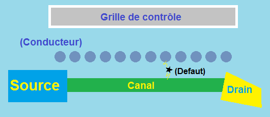 Schéma d’interaction d'une mémoire à nanocristaux avec un défaut.